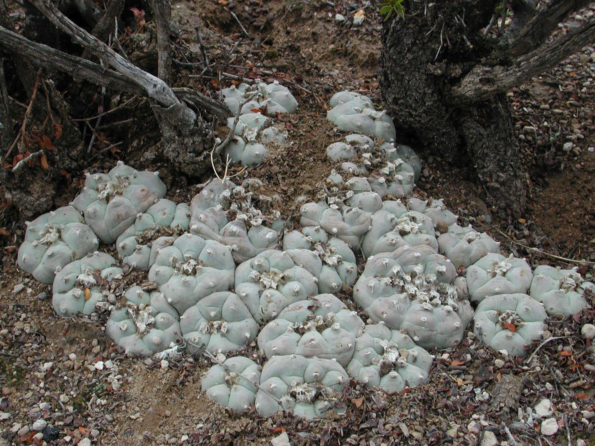 Lophophora williamsii in Wirikuta, near Wadley, San Luis Potosi, Mexico. Own work